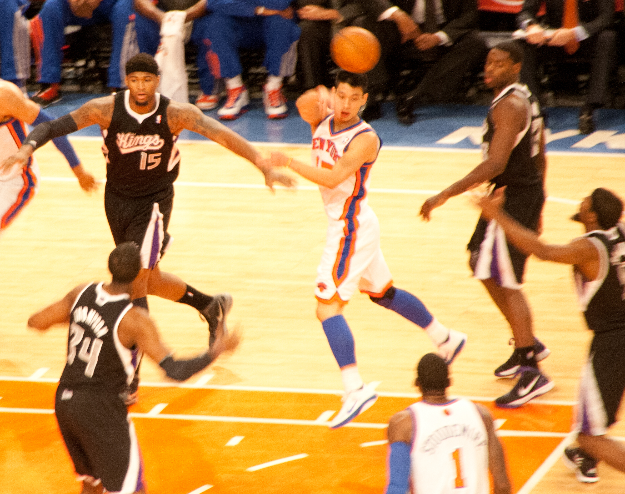 Jeremy Lin of the New York Knicks (with ball) passing against the Sacramento Kings at Madison Square Garden. Tyson Chandler (left) and DeMarcus Cousins (15) also seen.